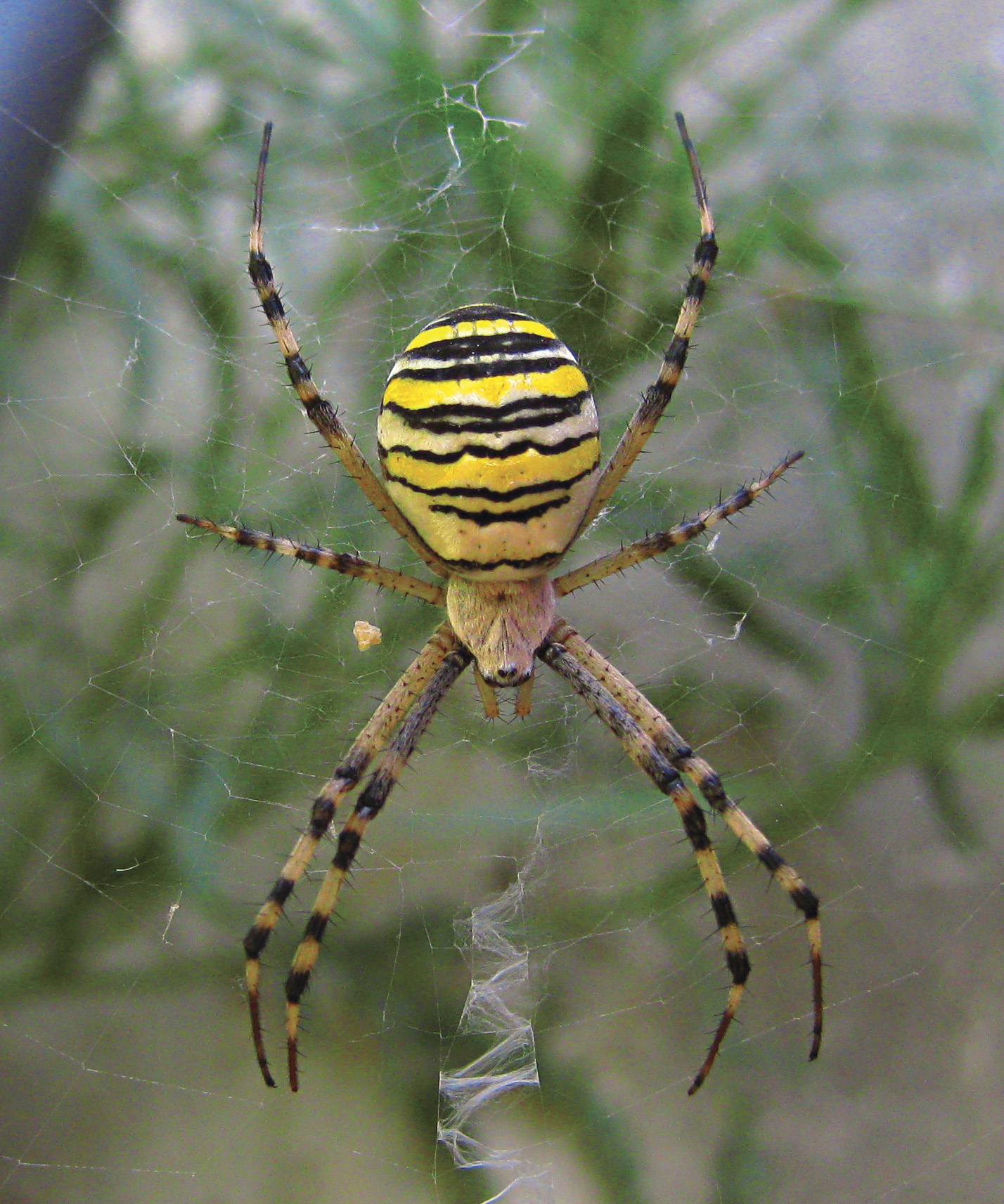 Spider Argiope bruennichi, gravid female, Mombercelli, Province of Asti, Italy